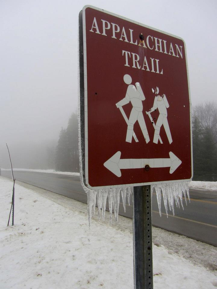 Appalachian Trail road-crossing sign, Route 112 NH road crossing, showing ice in winter